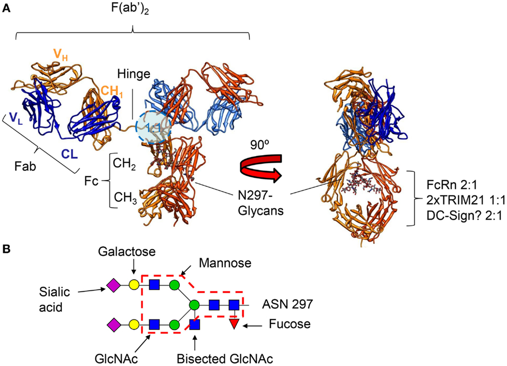 Crystal structure of an human IgG1 molecule (1HZH) viewed from two different angles, demonstrating the flexibility of the two Fab fragments with respect to each other and the Fc tail.